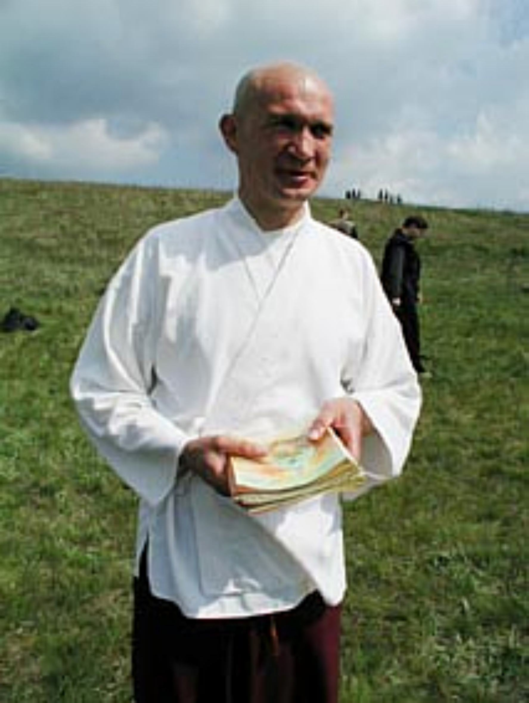 Village Kamenka, Lutugino Raion, Lugansk Oblast, 750 Anniversary of Namu-Myo-Ho-Ren-Ge-Kyo. Monk Roman Turchin — initiator and organiser of celebrating.